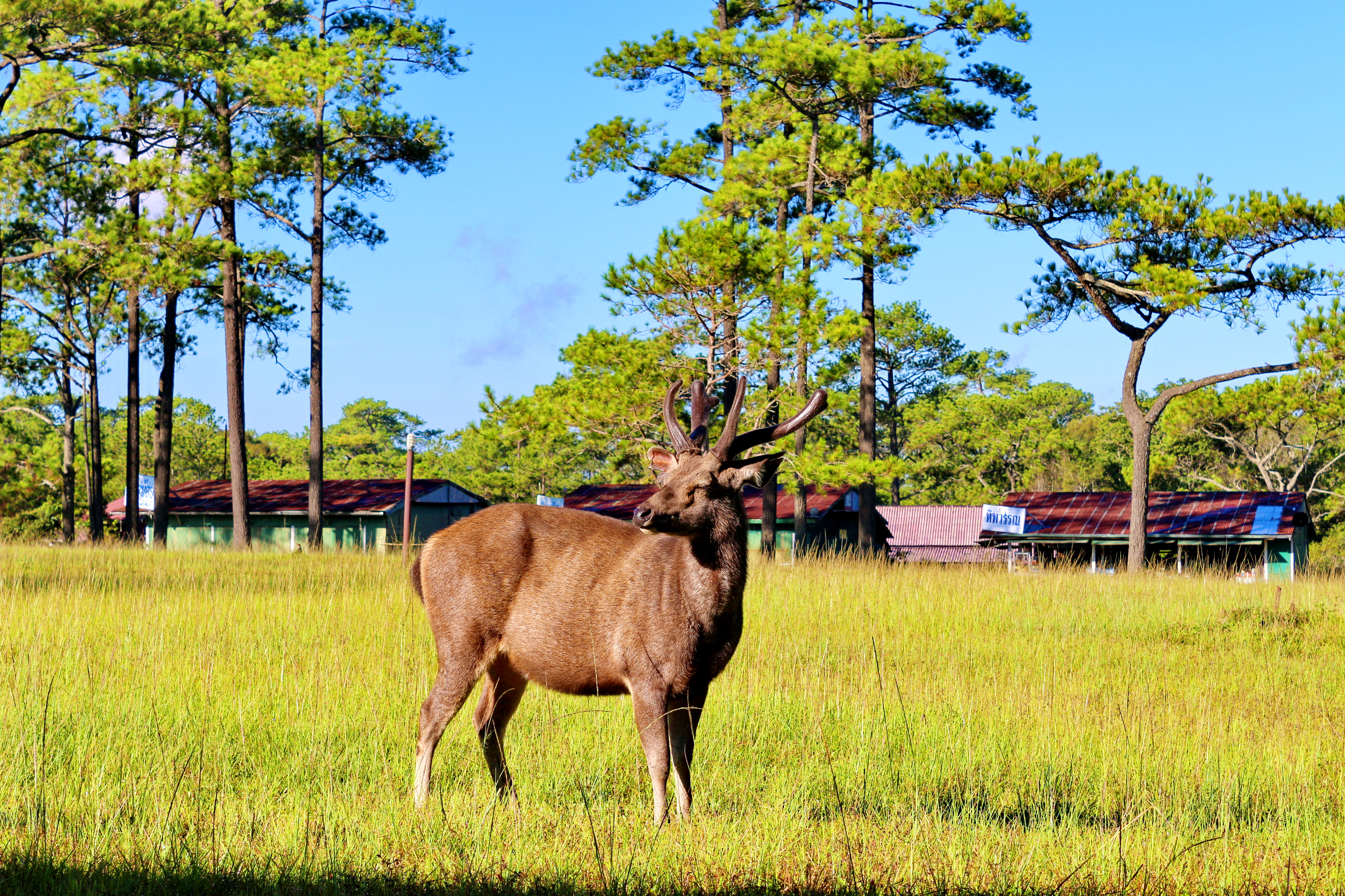 Travelers who climb to the top of Phu Kradueng will definitely see at least one deer. One group of deer is looked after in the camp site. This allows these deer to not be scared of humans, thus letting the other deer not be bothered by travelers. The first deer's name is Kam La (คำหล้า) which means "the last born". The second deer's name is Kam Pir (คัมภีร์) which means "religious scripture".